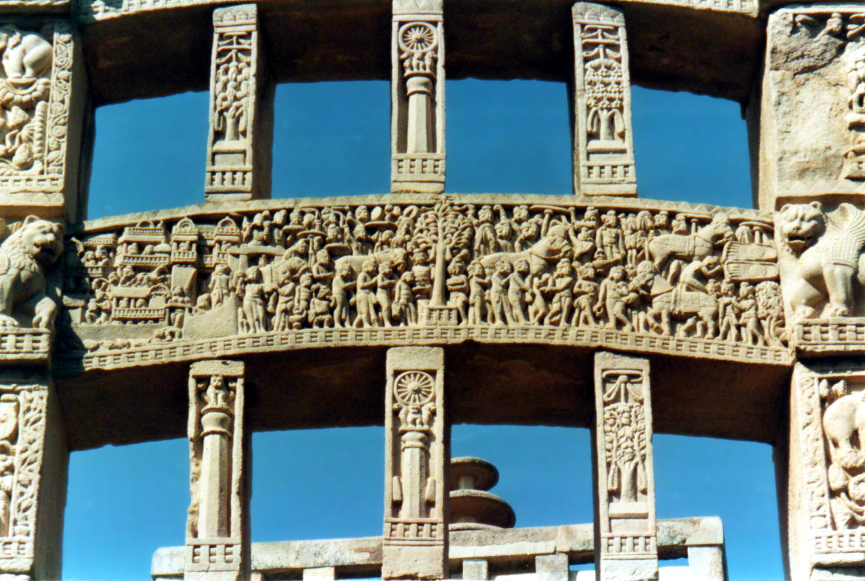 Middle Architrave. East Gate of Stupa #1, Sanchi The Great Departure is illustrated between uprights depicting Ashokan columns, decorated trees, and honorific parasols.